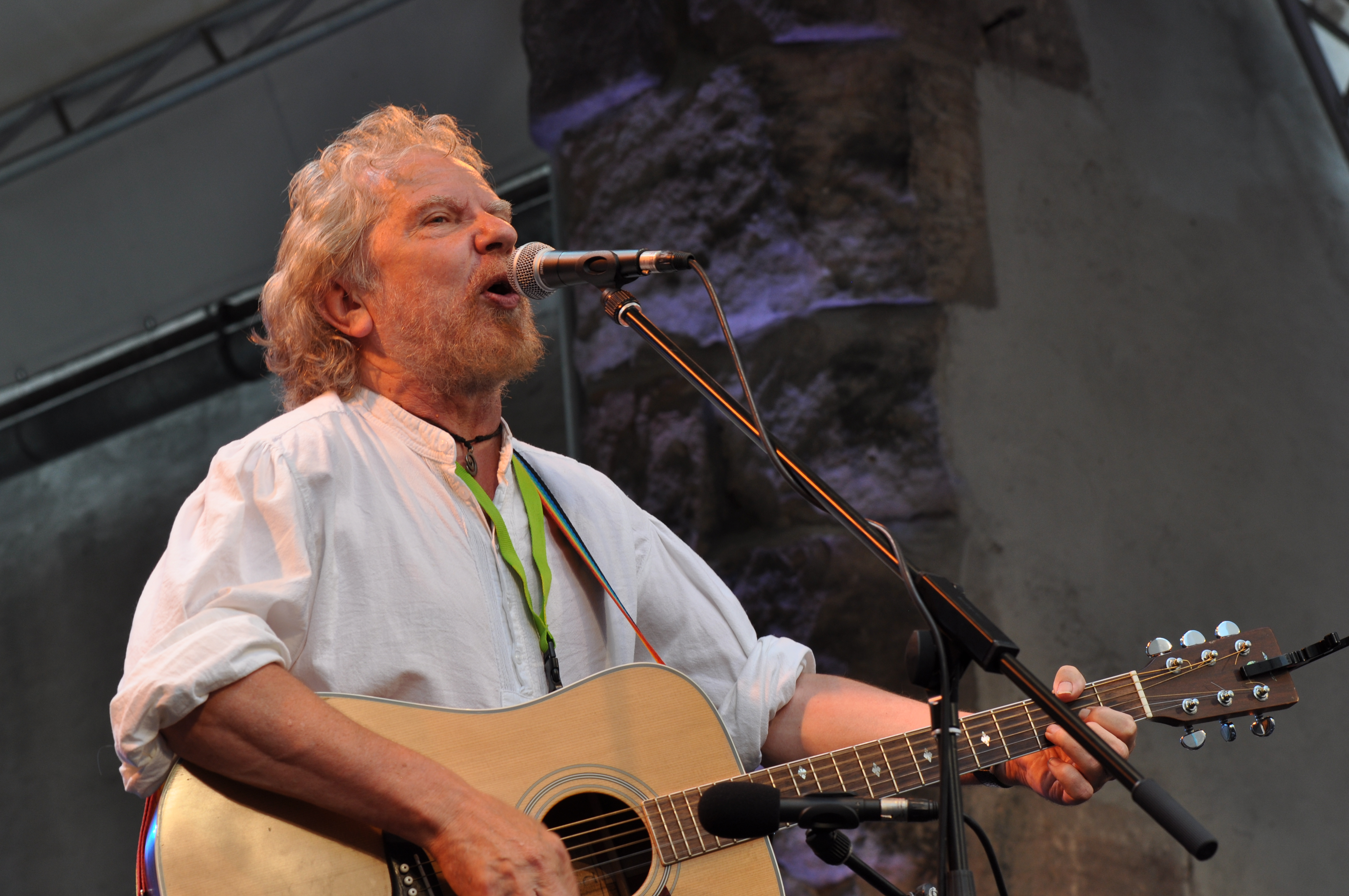 The Sands Family (IRL), appearance at the 39th music festival "Bardentreffen" 2014 in Nuremberg, Germany, St. Katharina stage